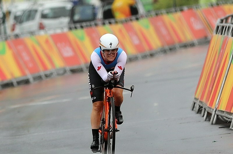 Cycling at the 2016 Summer Olympics – Women's road time trial